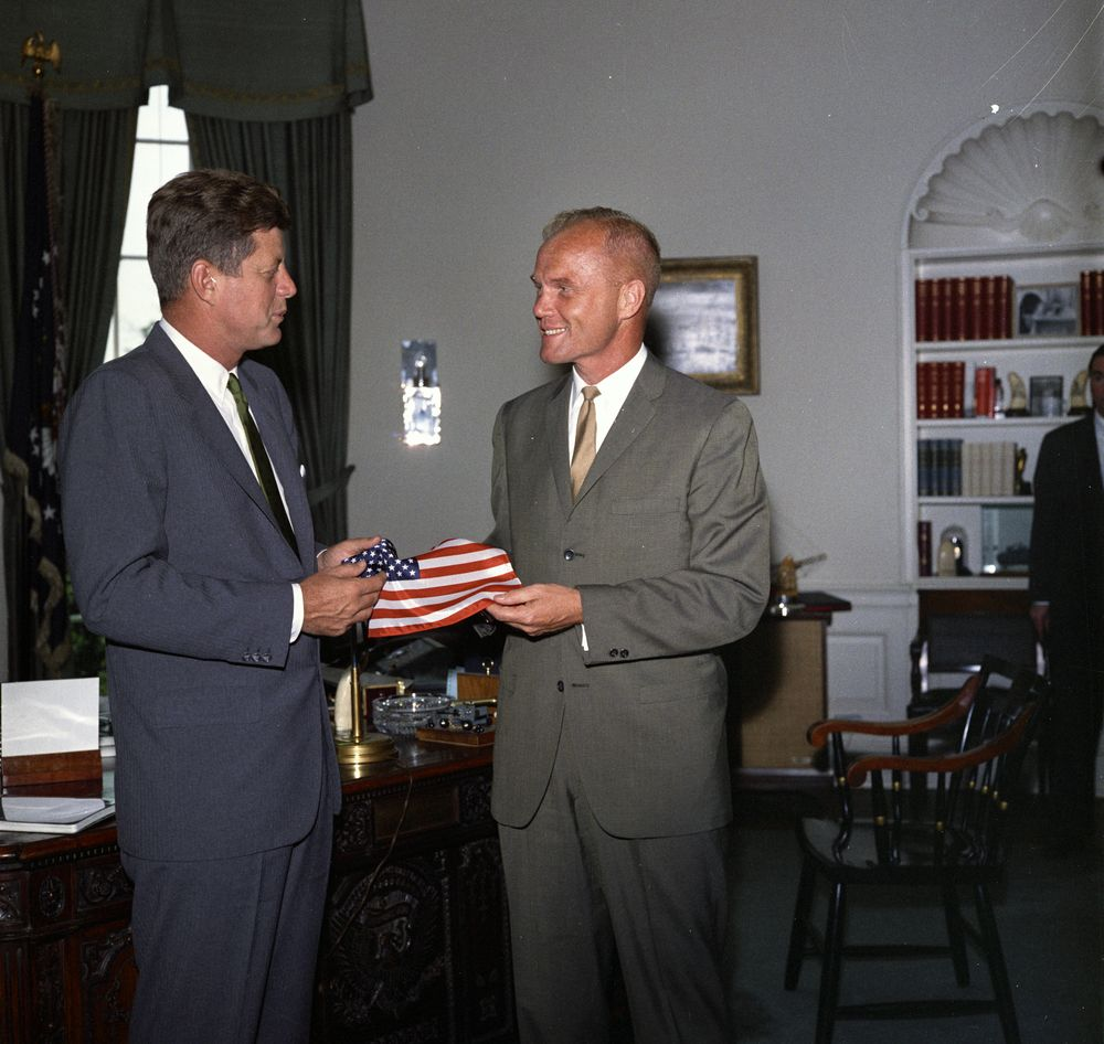 KN-C22489 President John F. Kennedy receives a gift of an American flag from astronaut Lieutenant Colonel John H. Glenn, Jr. (right); Lt. Col. Glenn carried the flag in his space suit during his orbital flight aboard Mercury-Atlas 6, also known as Friendship 7. Special Assistant to the President, Kenneth P. O'Donnell, stands partially out of frame in the background. Oval Office, White House, Washington, D.C.